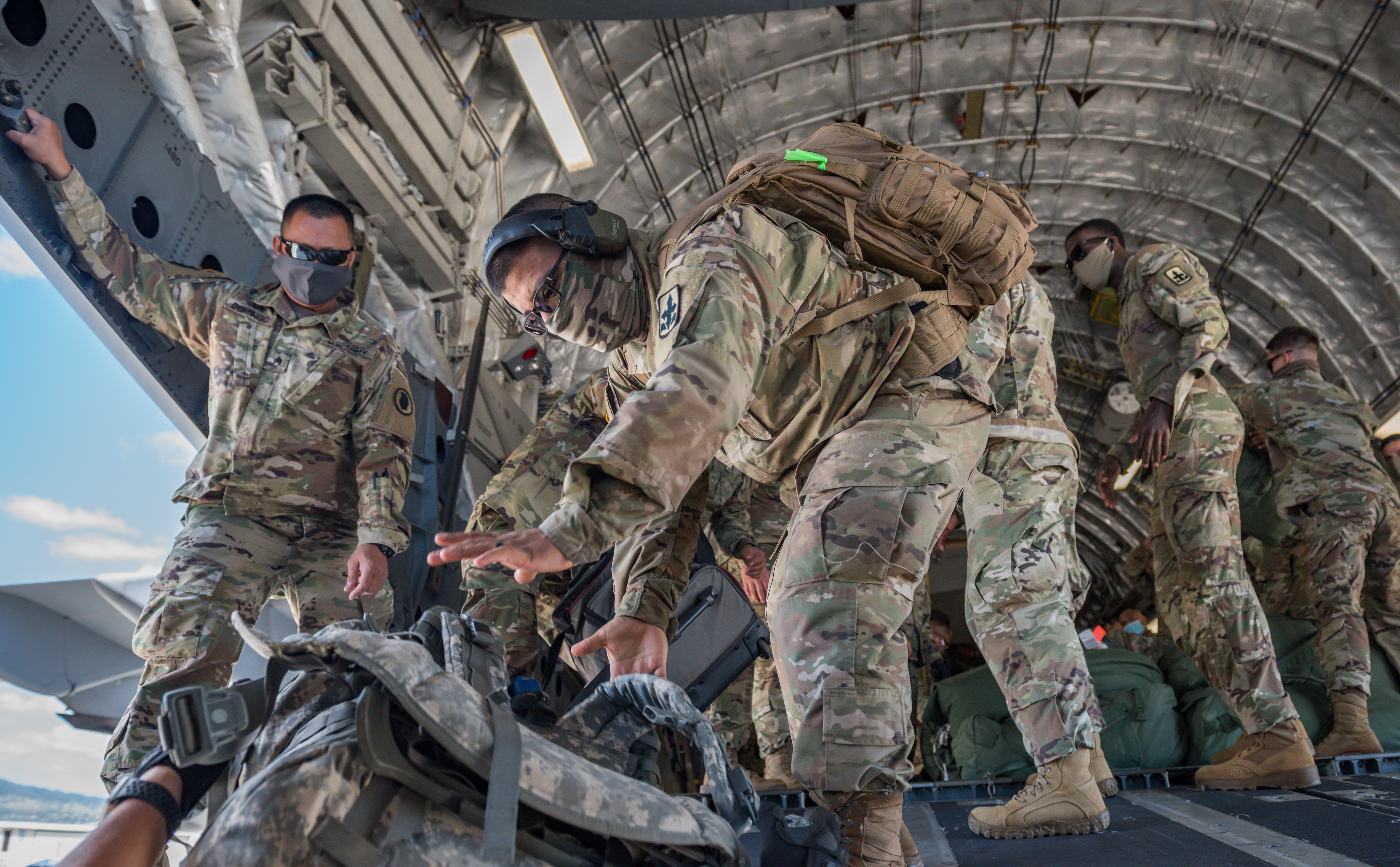 Members of the Hawaii National Guard load their gear onto the C-17, from the 204th Airlift Squadron, Hawaii Air National Guard which made several runs of troops to Maui, Kauai, and Hawaii to assist with the COVID-19 response, April 15, 2020, Kalaeloa, Hawaii. An additional 800 Hawaii National Guard members were activated over the previous week to provide further support to all counties. (US Army National Guard photo by Sgt. John Schoebel)